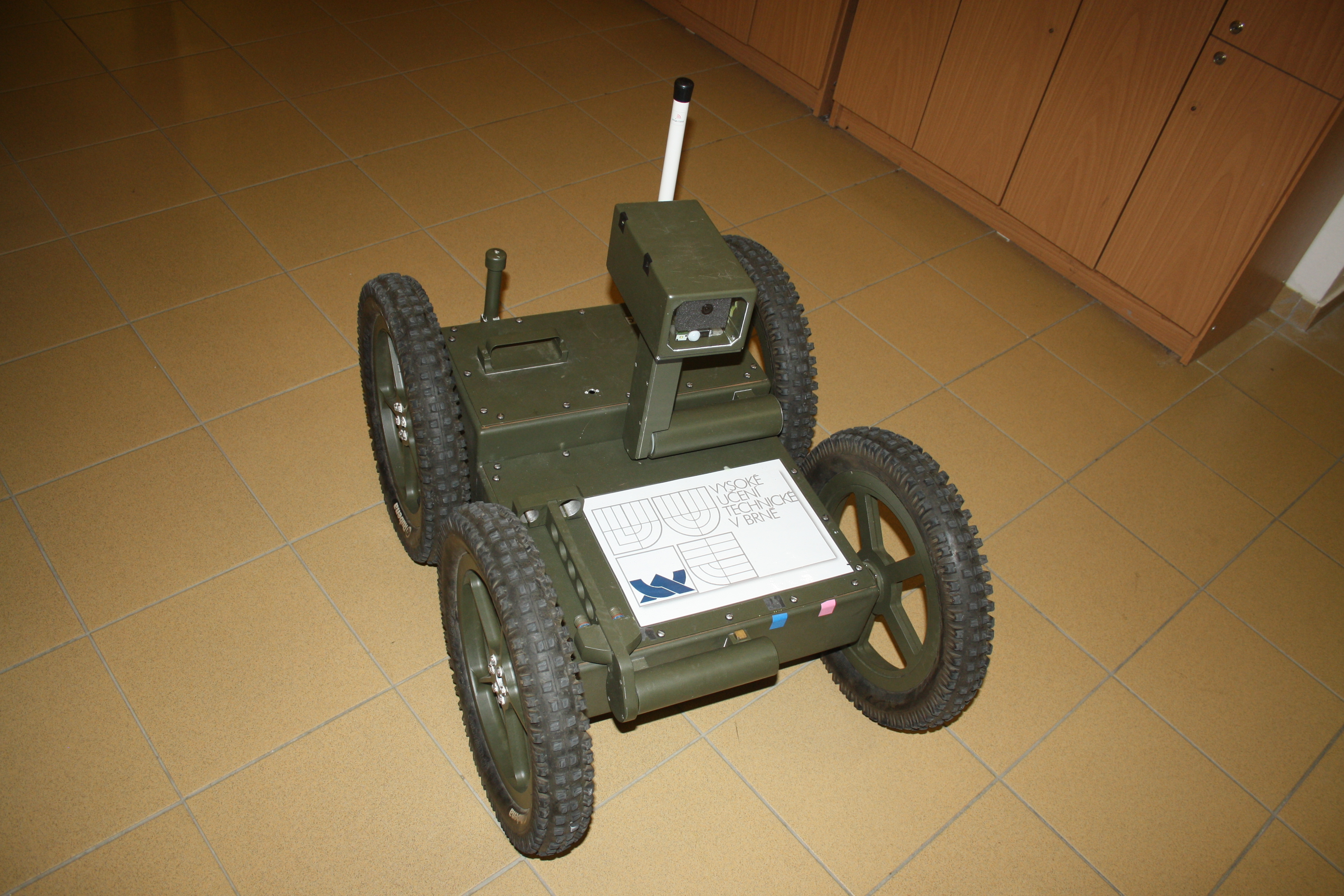 Orpheus AC robot front view.